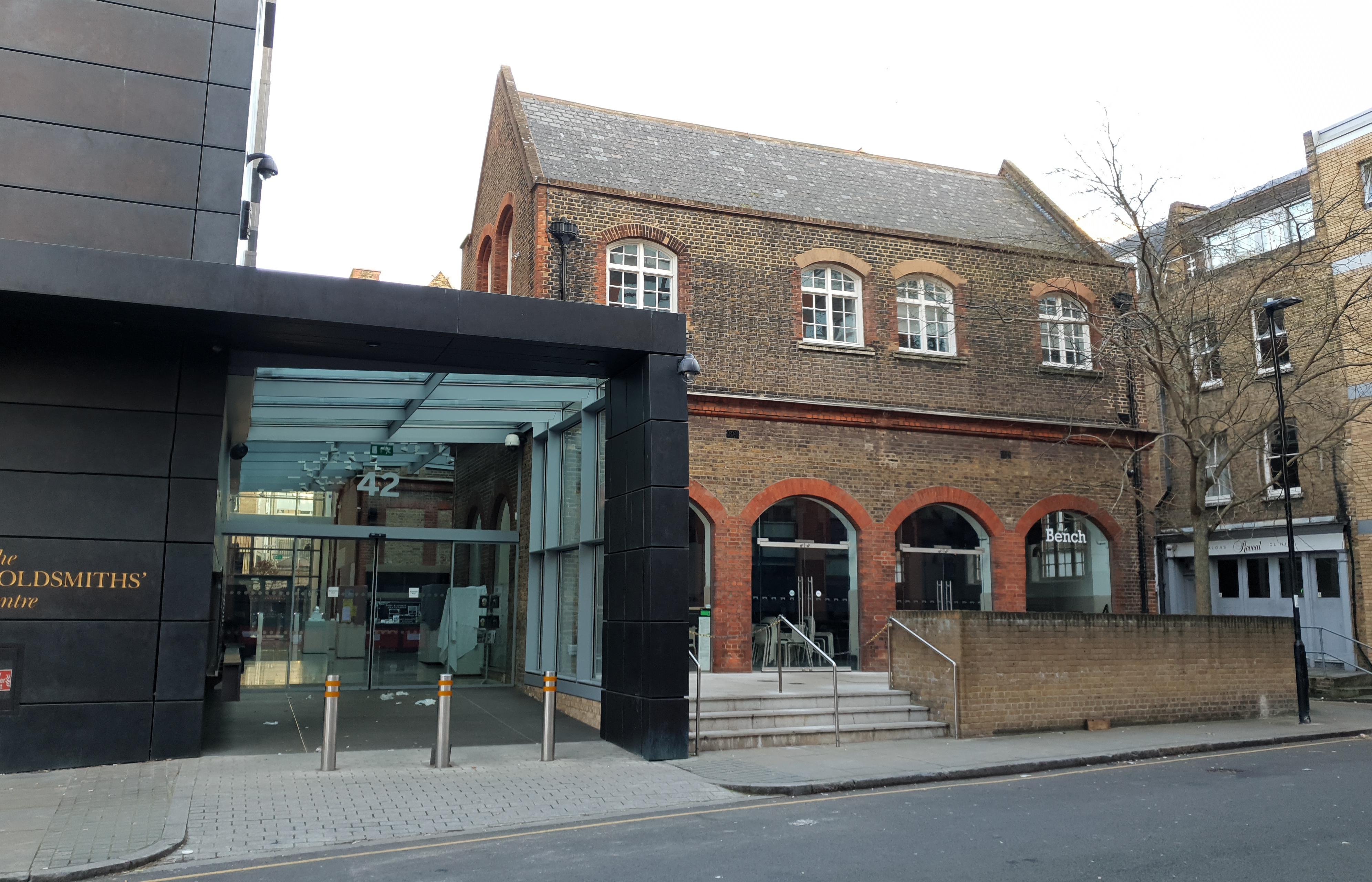 The entrance to the Goldsmiths' Centre from Britton Street in Clerkenwell, London. The centre was established by the Goldsmiths' livery company and provides for the professional training of goldsmiths.